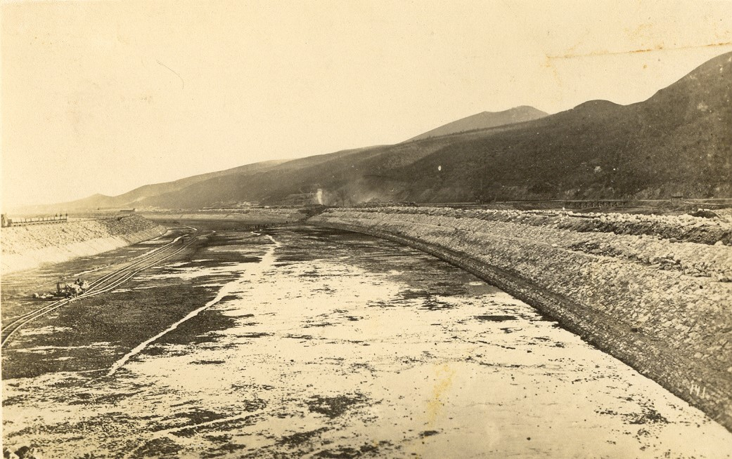 Sipski kanal, completion of construction in 1896.